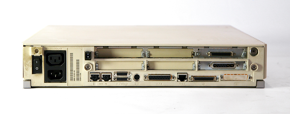 Back view of a Sun SparcStation 10